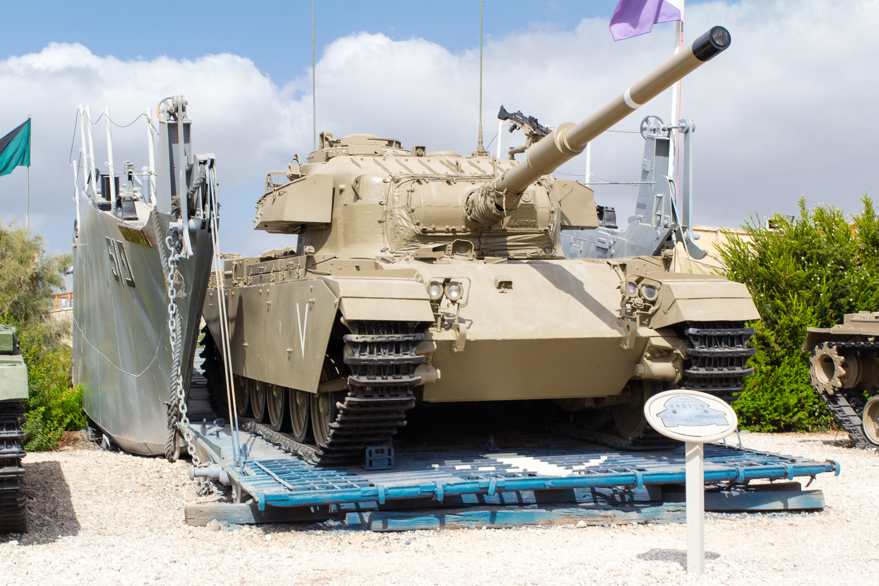 Centurion Shot Kal A disembarking from Landing craft P-51 "Etzion Gever" at the Yad LaShiryon museum, Latrun, Israel